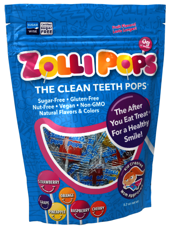 Bag of ZolliPops, clean teeth lollipops